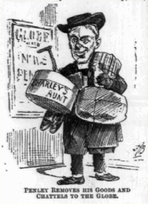 Cartoon of W.S. Penley